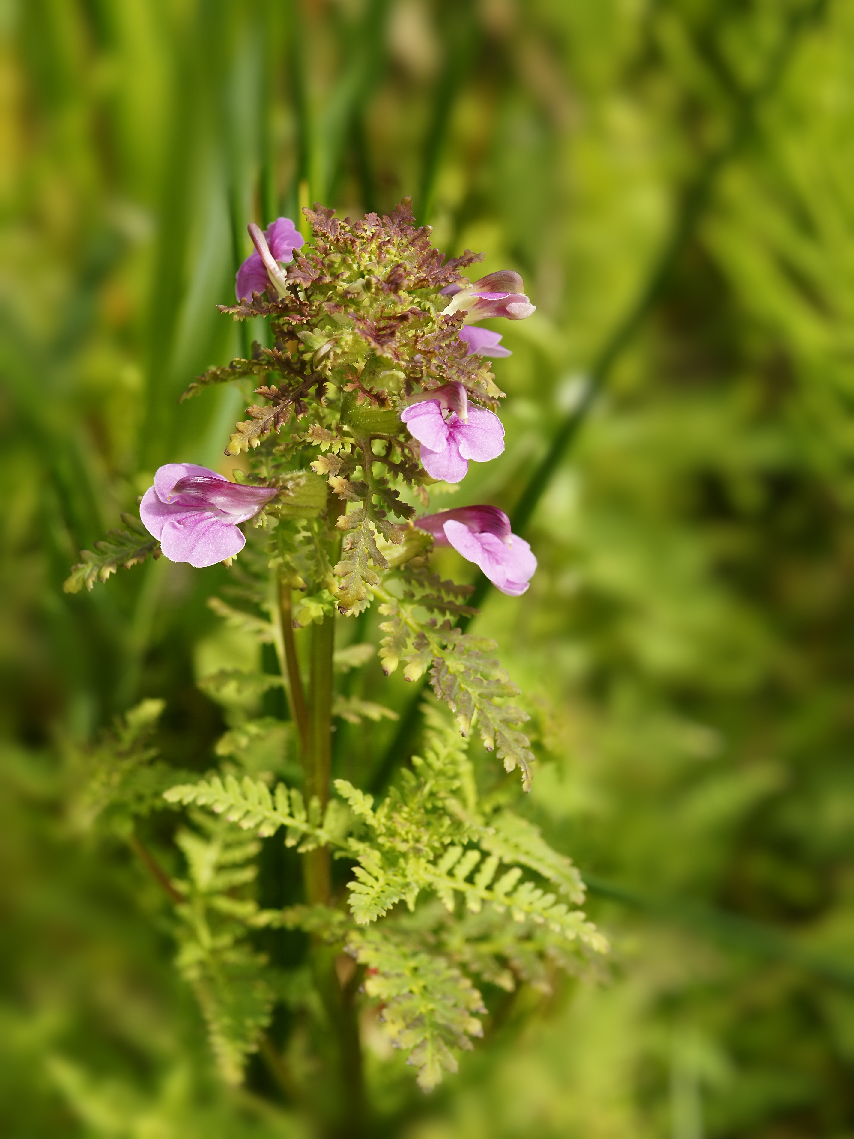 Marsh Lousewort. Belgium Identification of subspecies